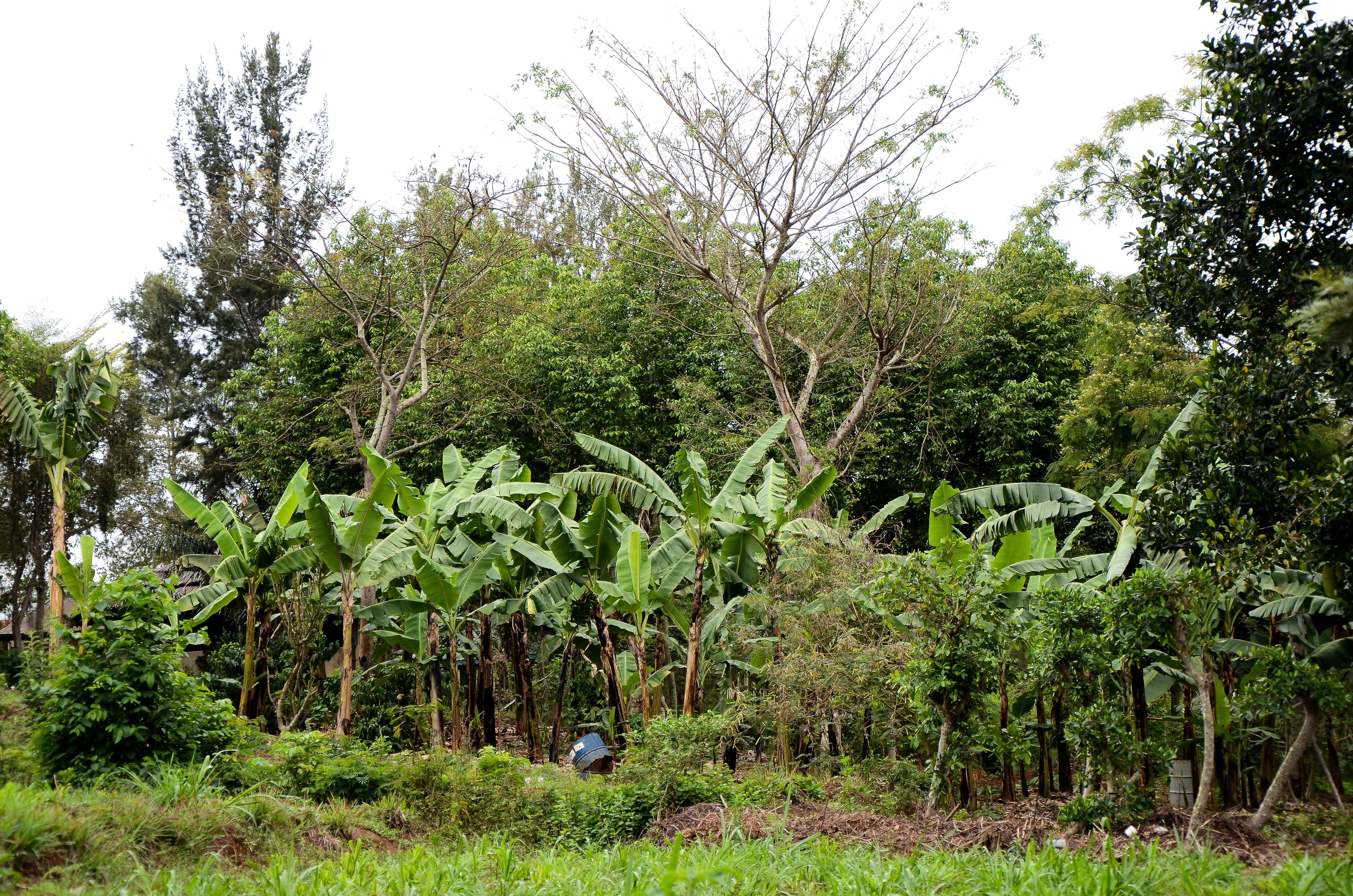 VI Agroforestry in Masaka, Uganda. September 2013.